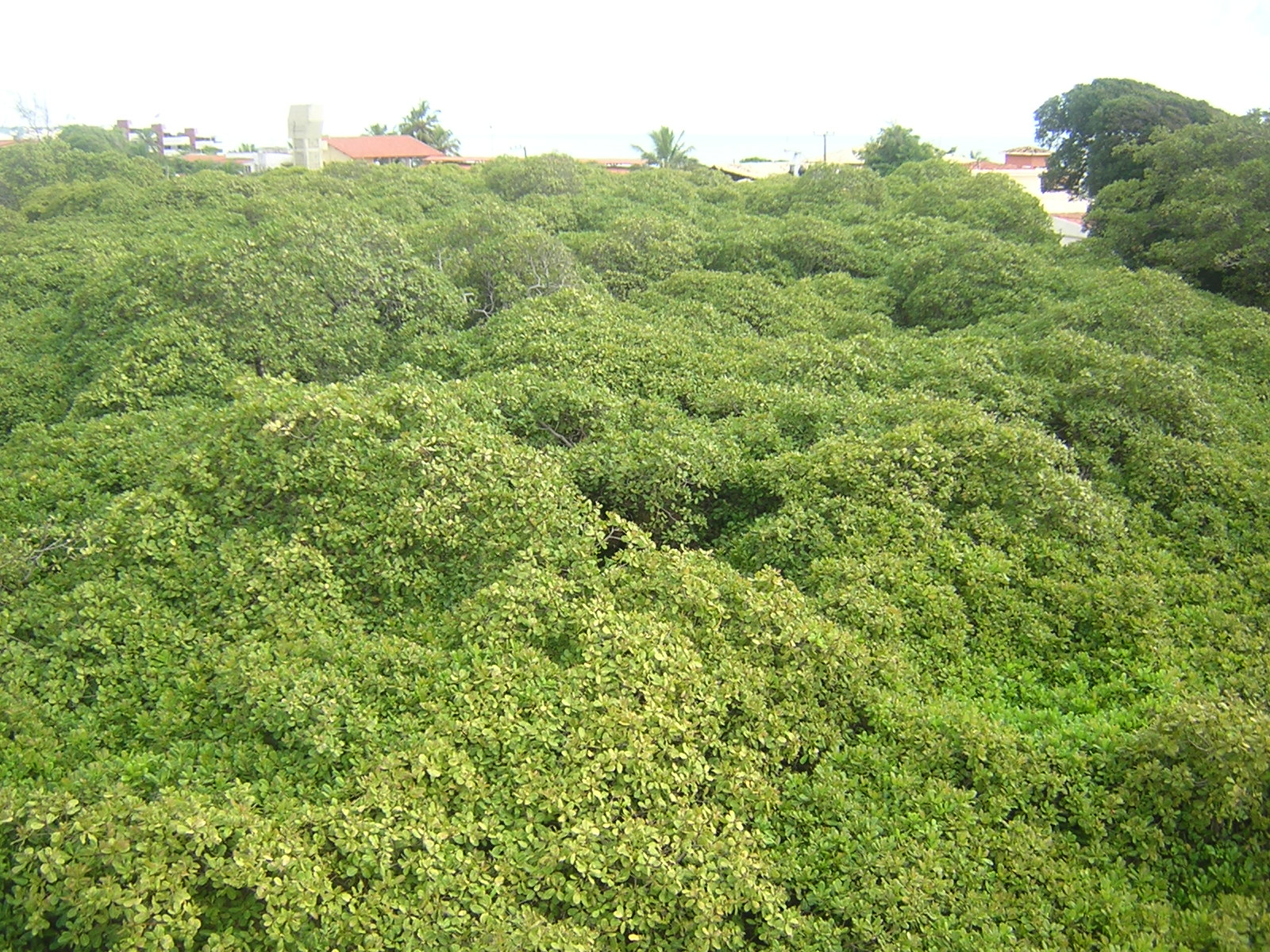 Biggest Cashew-tree in the world, located in Parnamirim, Rio Grande do Norte (Brazil)